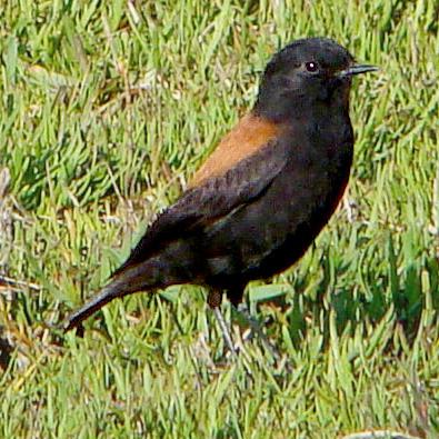 Lessonia rufa male photographed in Rio Grande do Sul, Brazil, in August 2009.